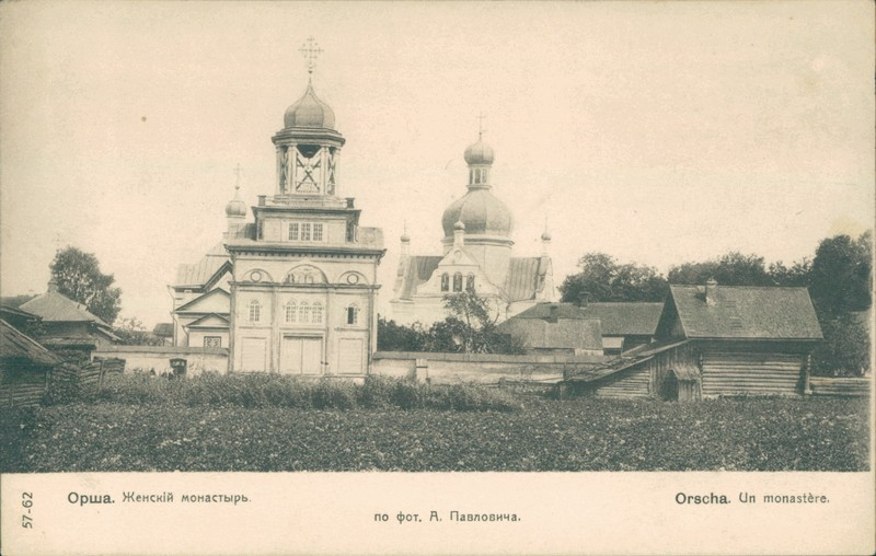 Monastery near Vorša